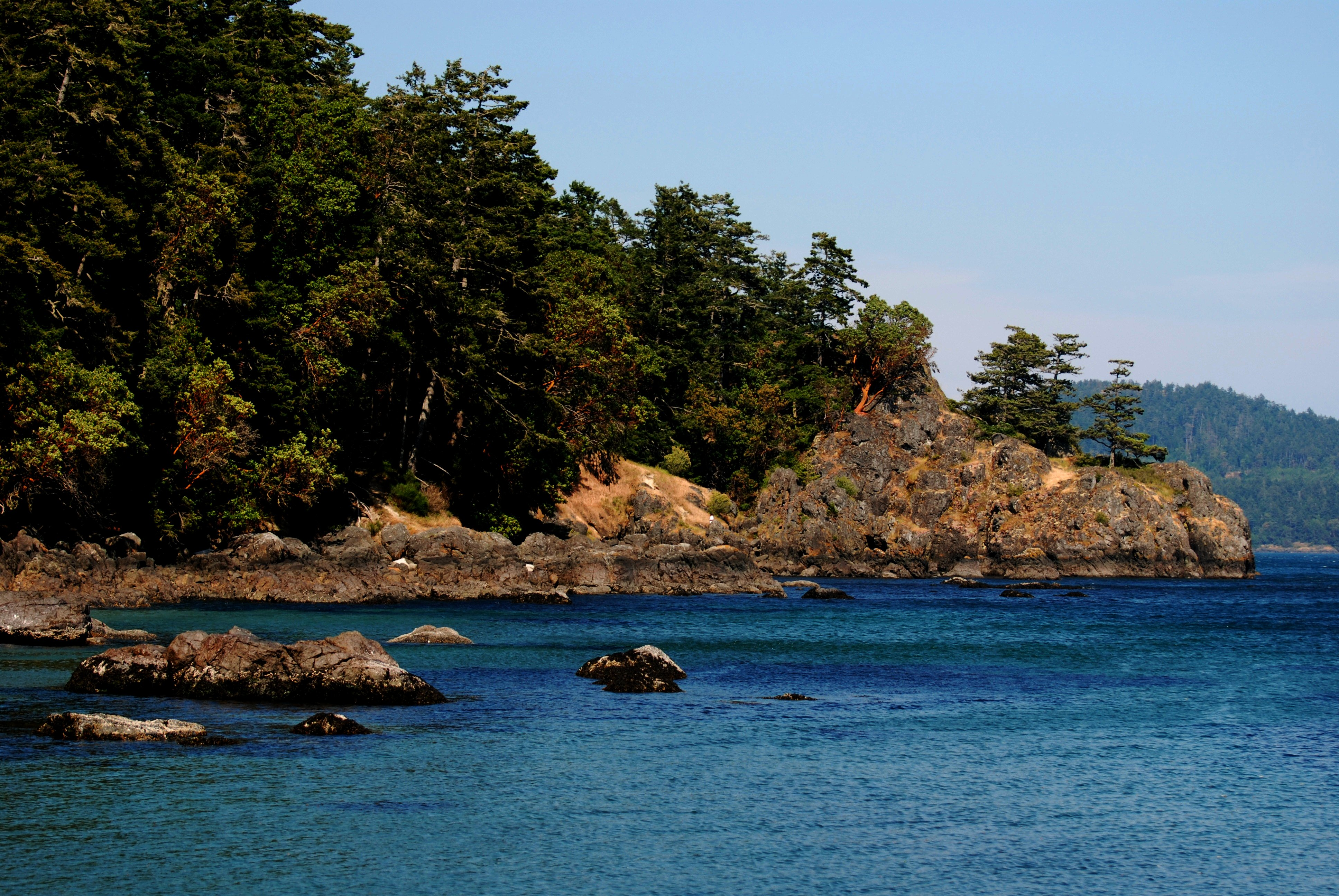 East Sooke is the largest Capital Region District Park, encompassing 1422 hectares ( 3512 acres) of natural and protected coastal landscape. In this Wilderness Recreation Park, you?ll experience solitude and harmony with nature in a par untouched by urban progress. Over 50 kilometers ( 31 miles) of trails draw you into the timeless beauty of East Sooke. Begin your exploration at one of the three entry points. From